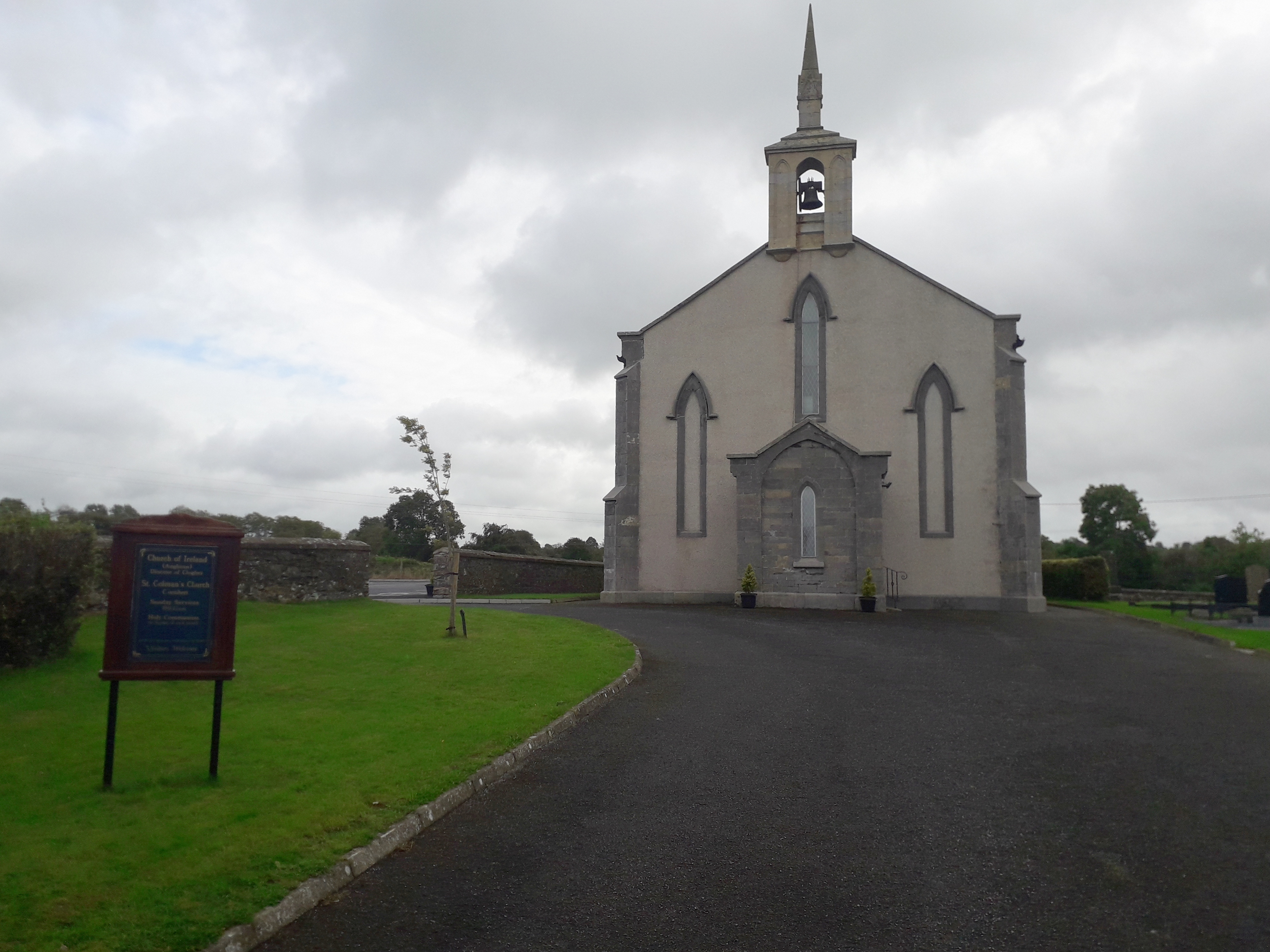 Clontibret, St Coleman's Church. Wikidata has entry Q55029267 with data related to this item.